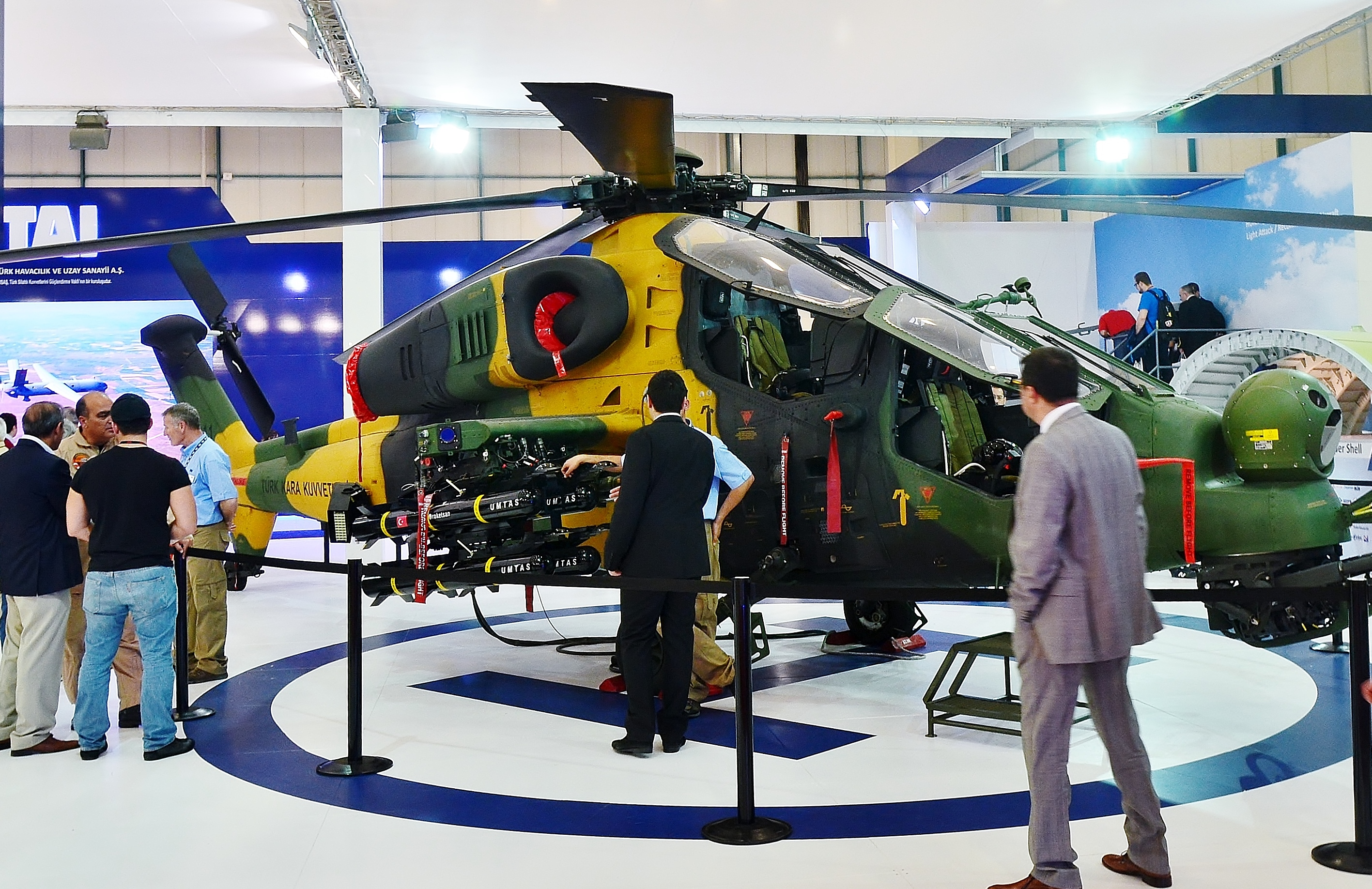 Turkish Land Forces' T-129 ATAK attack helicopter of Turkish Aerospace Industries at IDEF 2015